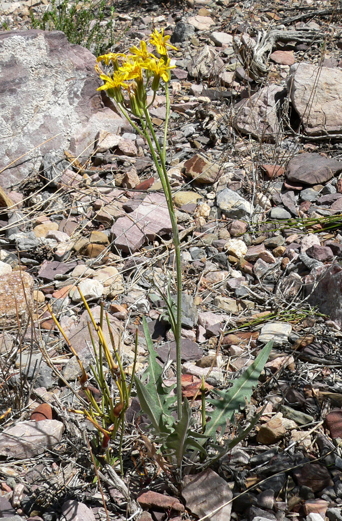 Crepis intermedia near road 592(?) about 2 km northeast of Mount Stirling, Spring Mountains, southern Nevada (elev. about 1900 m); although these individuals are less tomentose than usual for C. intermedia, the species is known to be highly variable, and the outer phyllaries are smaller than would be expected for C. occidentalis